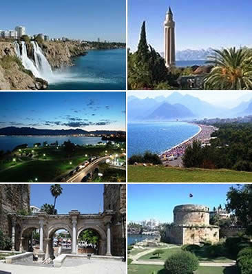 Collage of Antalya